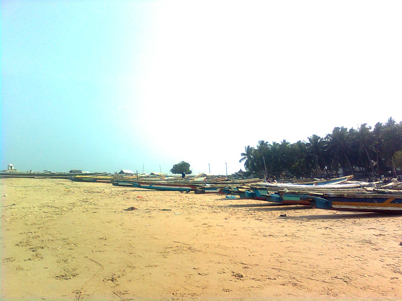 Fishing Boats at Lawsons Bay Beach, Visakhapatnam